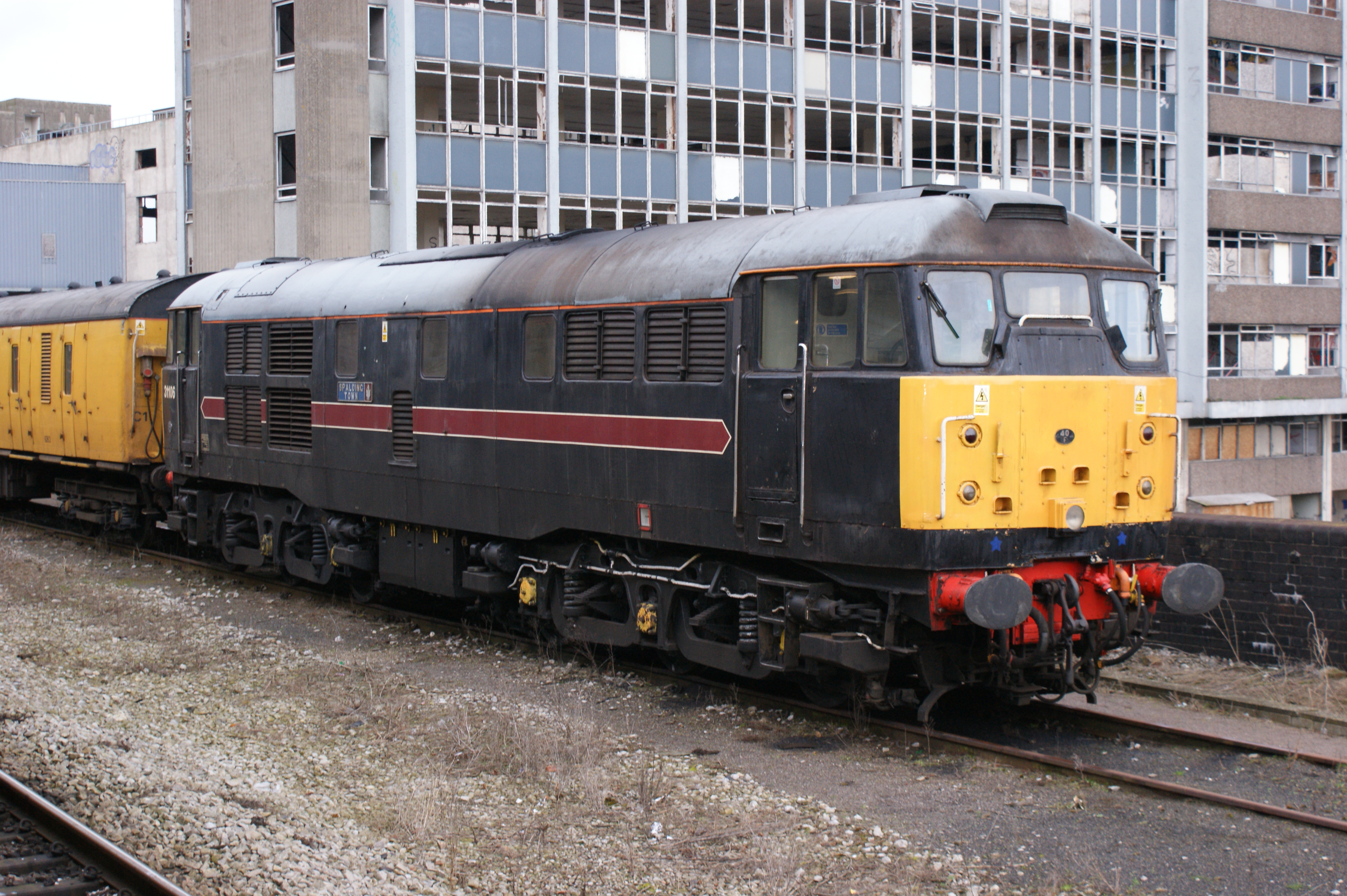 Brush Class 31/1 1,450 hp A1A-A1A No.31 106 "Spalding Town" (ex-D5524) (ex-The Blackcountryman) of Howard Johnston Engineering but still in defunct Fragonsett livery, at Bristol Temple Meads on a Network Rail test train, 3/09.